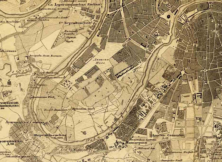 Part of map: Russia, Moscow, Devichye Pole, Babylon - 1880.